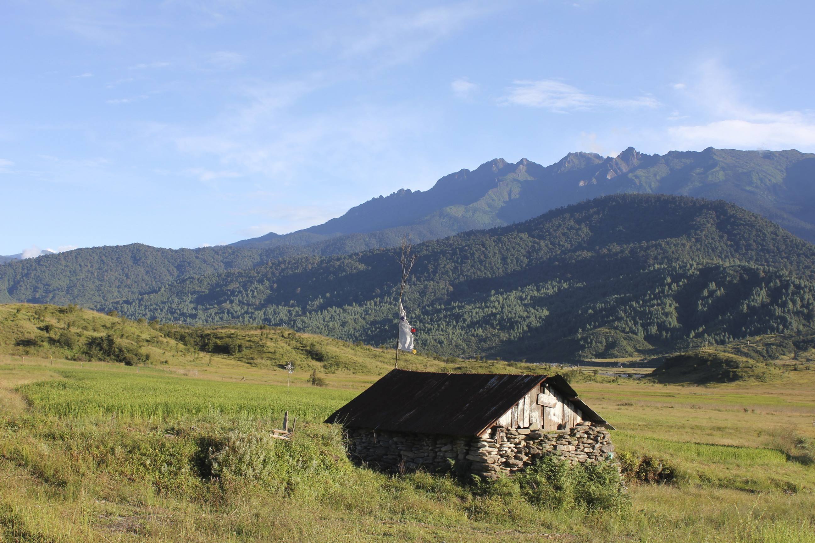 This is maybe why Mechuka is called "Switzerland of the North East".